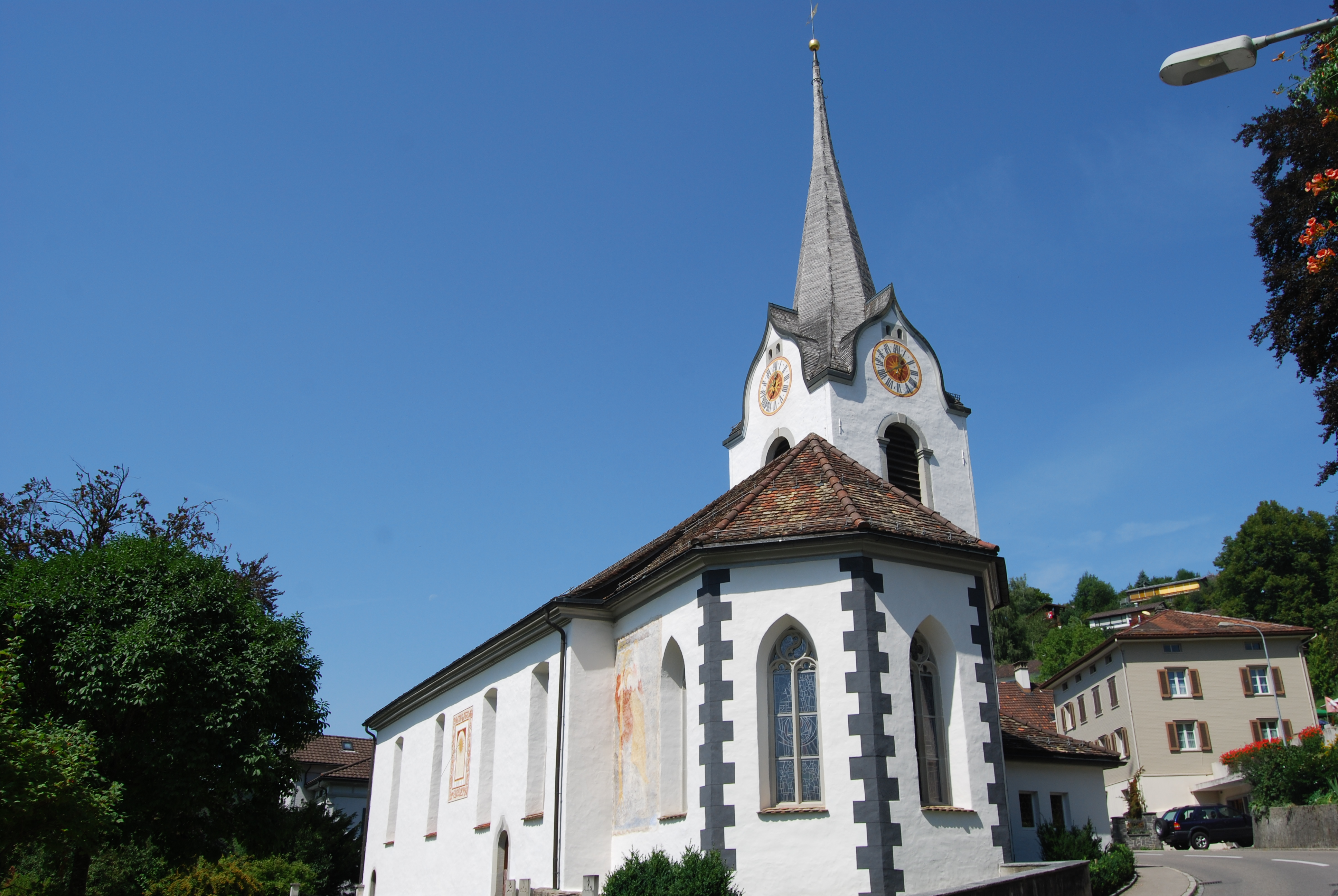 Church of Oberhelfenschwil, canton of St. Gallen, Switzerland